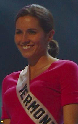 Michelle Fongemie, 2004 during rehearsals for the Miss USA 2004 pageant.